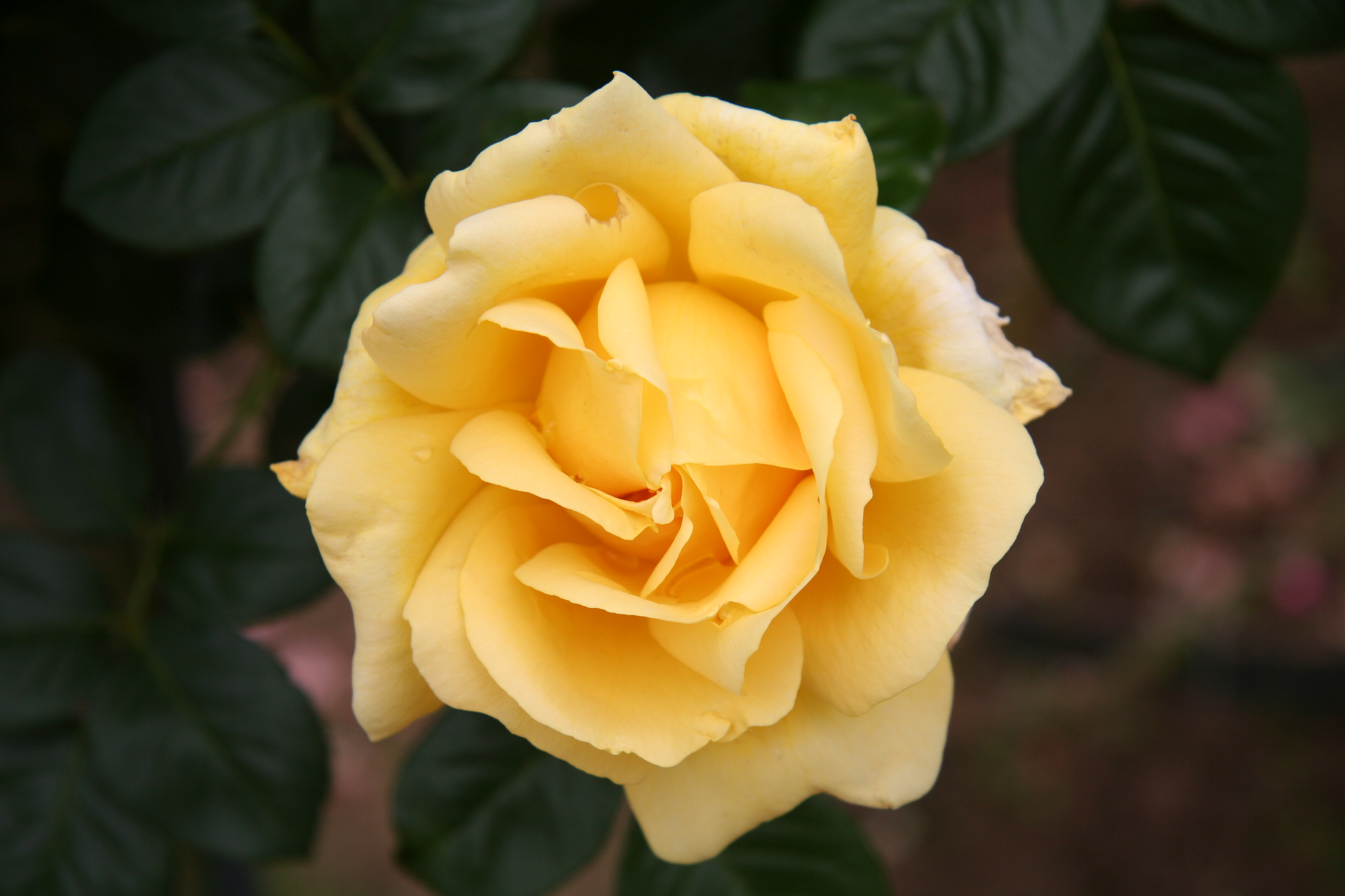 Michelangelo rose - Bagatelle Rose Garden (Paris, France).